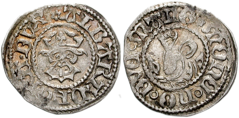 German states, Mecklenburg. Albrecht VII der Schöne. 1503-1547. AR Dreiling (17mm, 0.81 g, 6h). (rosette) ΛLBΛRT • DE GRΛ • DVX, facing bull head (rosette) mOnC o nO o DVC o mΛnO, coat of arms of Stargard. Kunzel, Mecklenburgische 76 (B/c). Good VF, toned. Ex Prof. de Wit Collection; Henzin FPL (November 1991), no. 629.